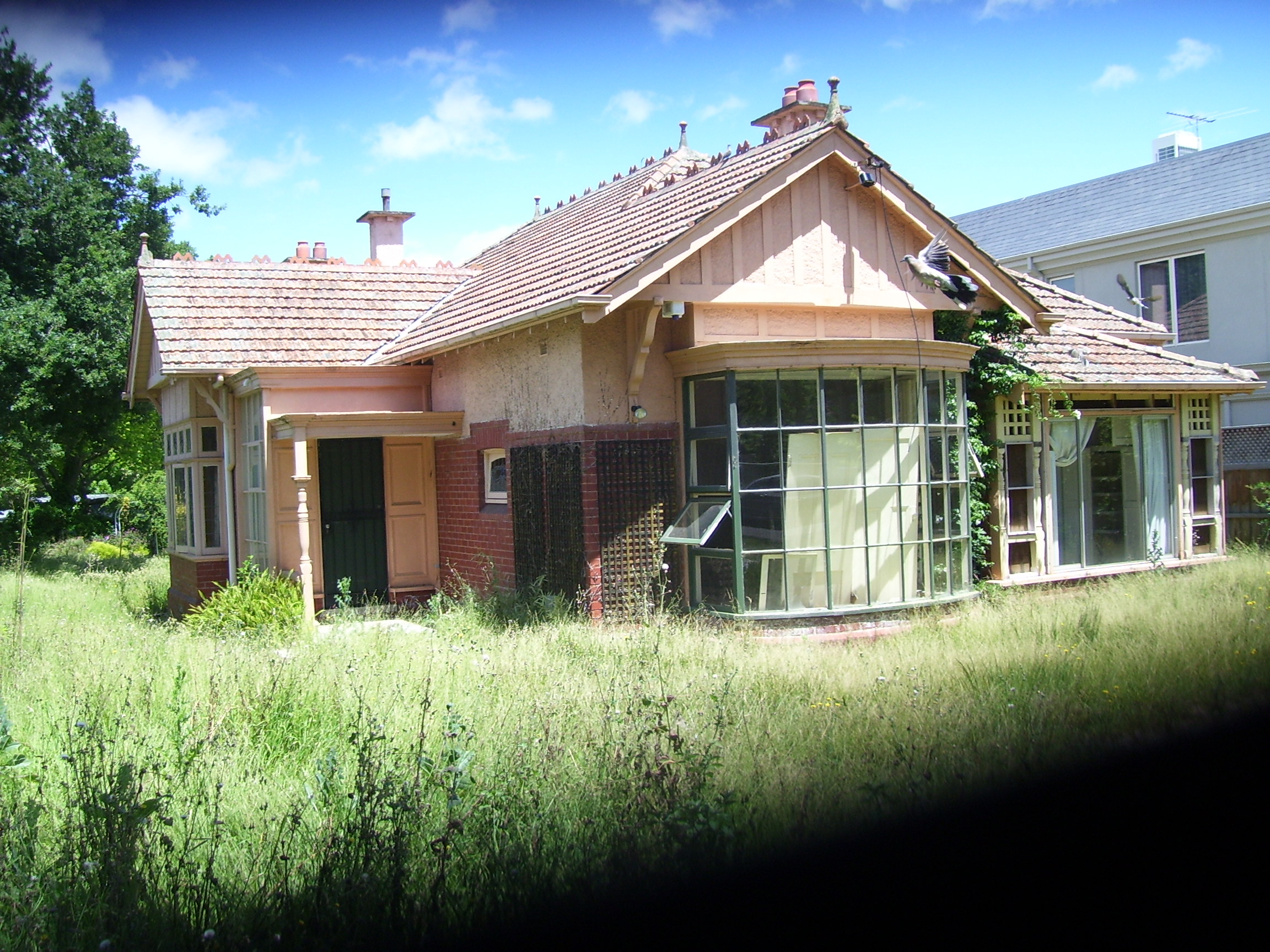 Ngara, 46 Rowland Street Kew Victoria, Australia, Gough Whitlam's birthplace, 15 November 2015